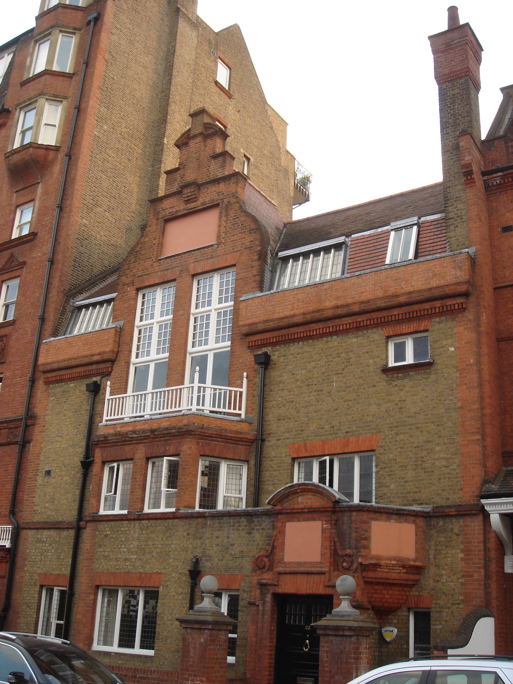 44, Tite Street SW3